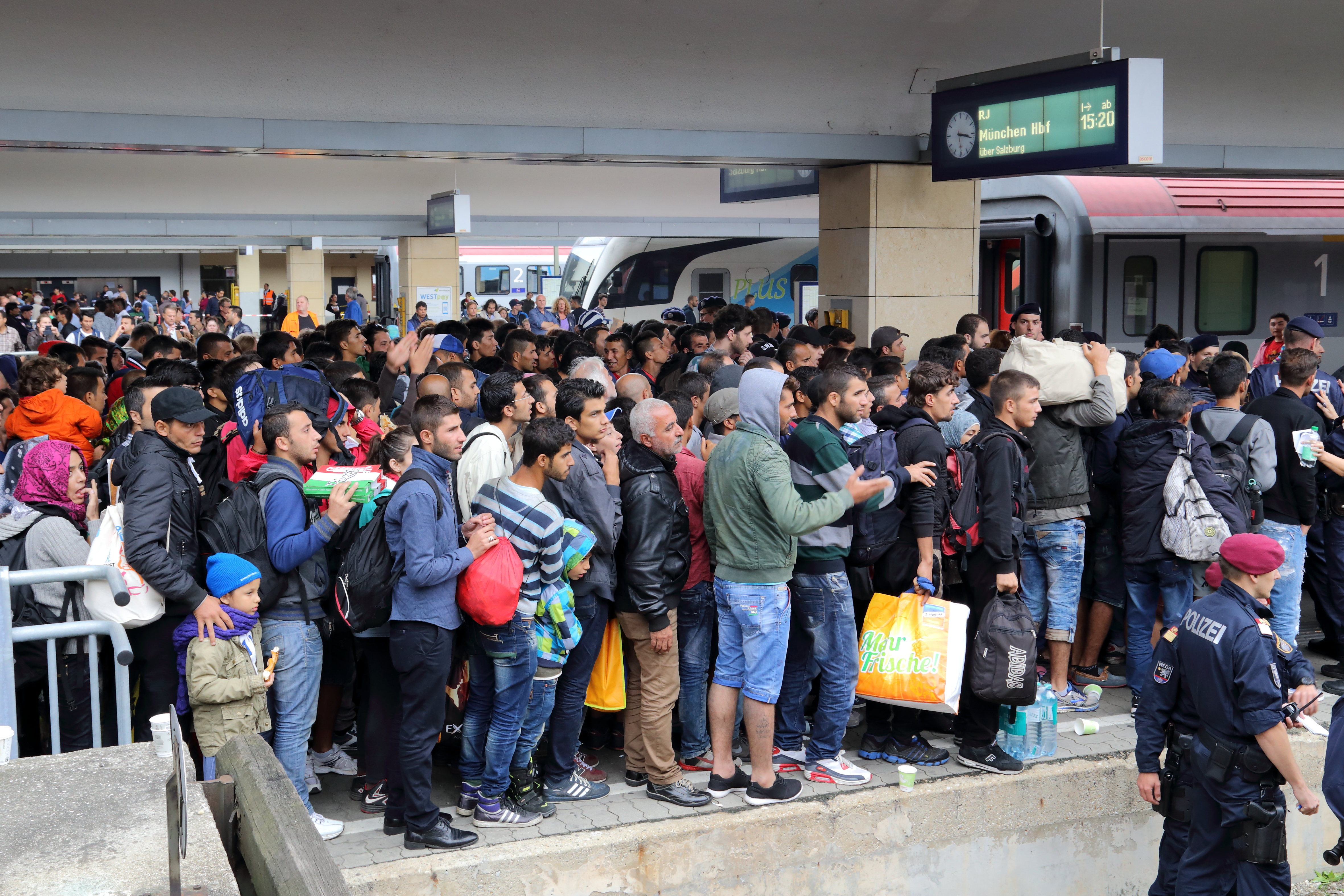 Refugees at Vienna West Railway Station during the European migrant crisis 2015.